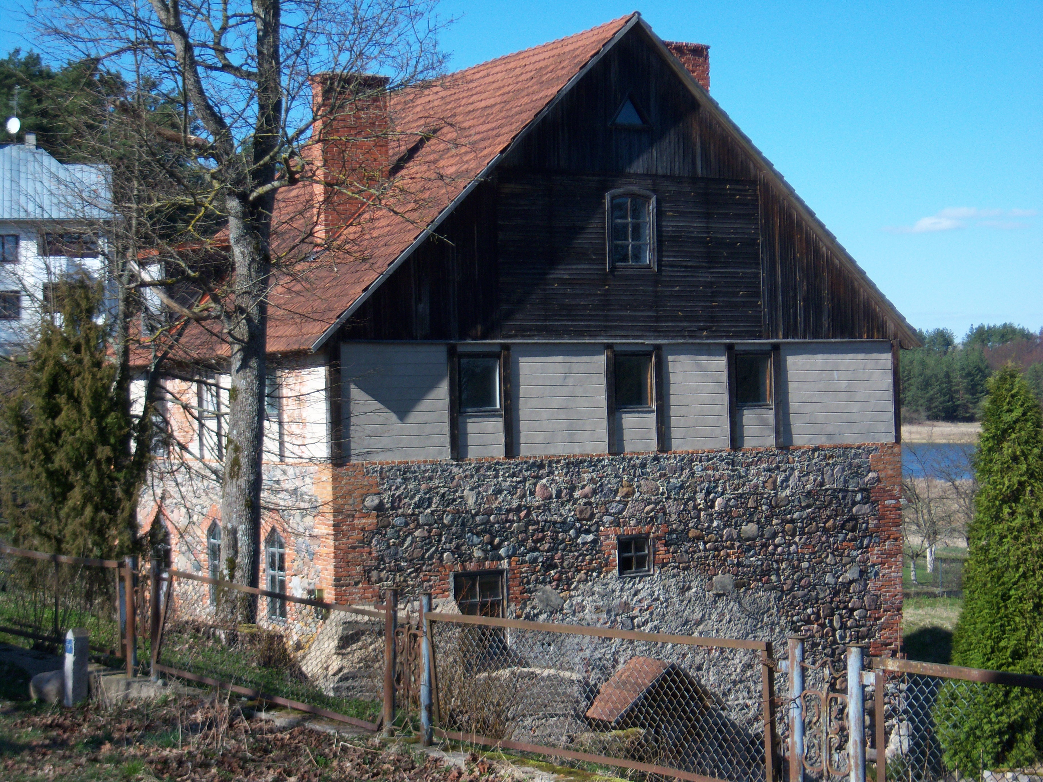 Former pulp and paper plant by Popierinė pond, Prienai, Lithuania